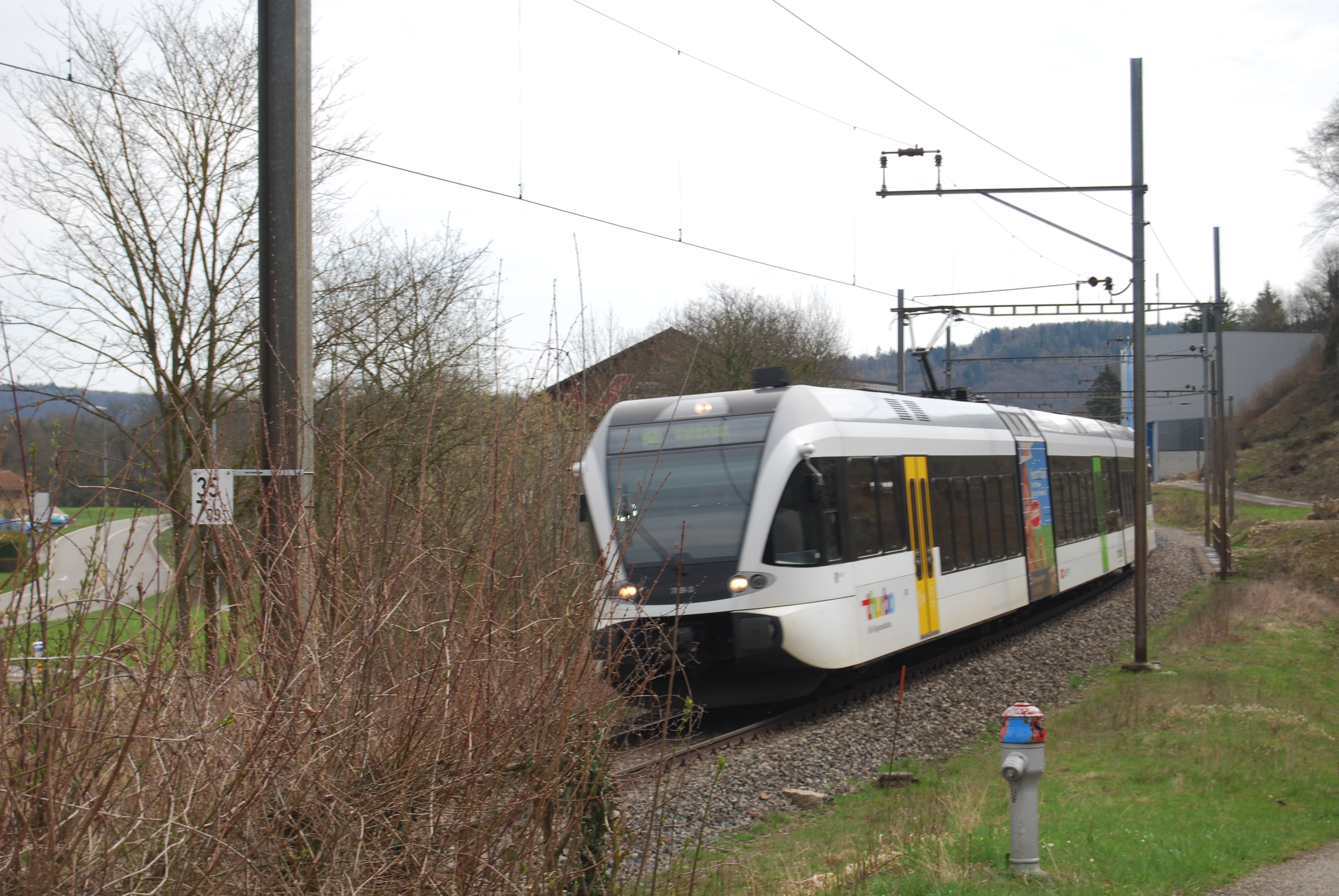 Train of the railway company THURBO at Mellikon, canton of Aargau, SwitzerlandEsperanto: Trajno de la fervojkompanio THURBO en Mellikon, Kantono Argovio, Svislando